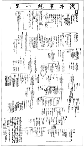 Family tree of Azai.